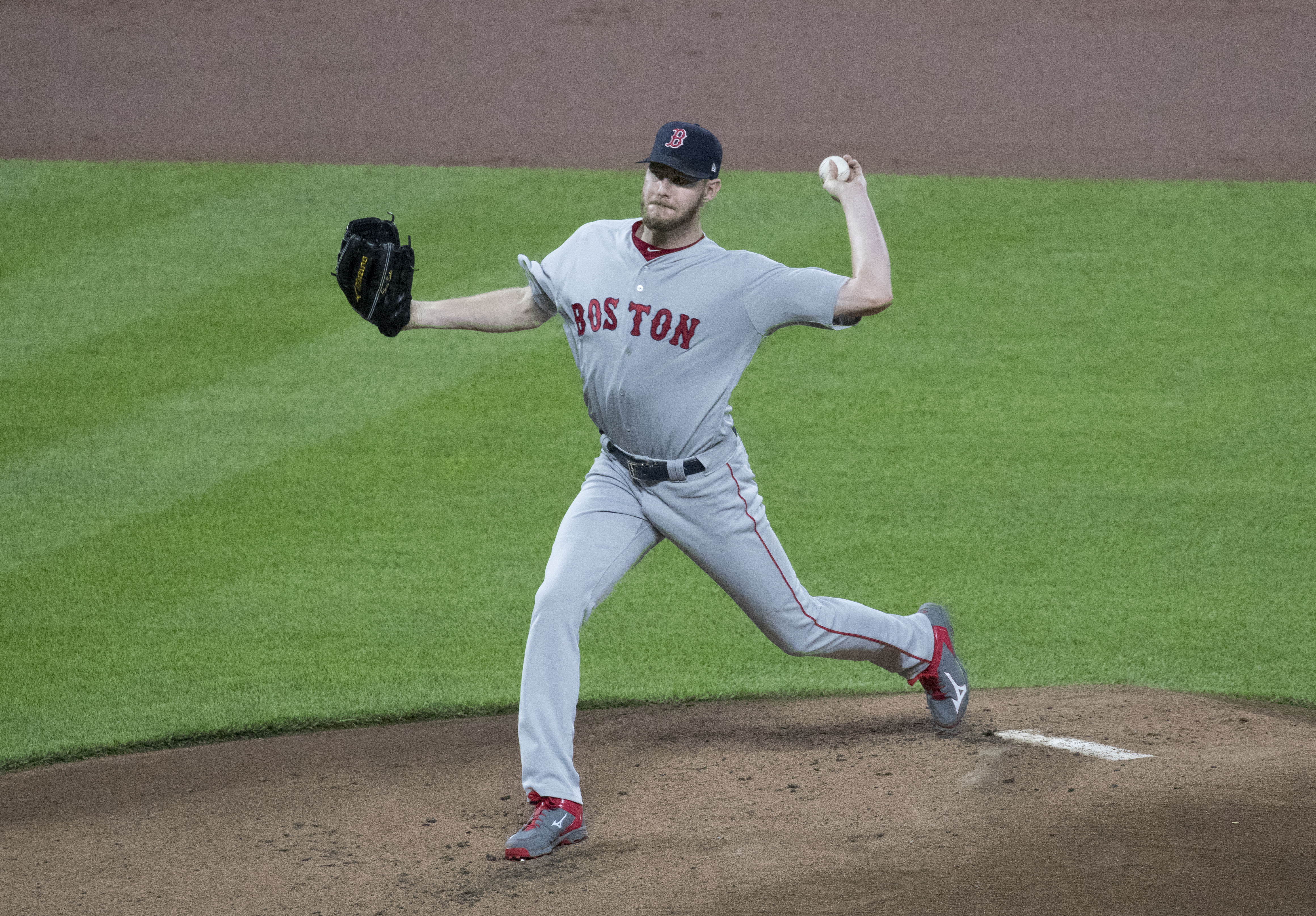 Chris Sale of the Boston Red Sox in a game against the Baltimore Orioles at Oriole Park at Camden Yards on September 20, 2017 in Baltimore, Maryland.